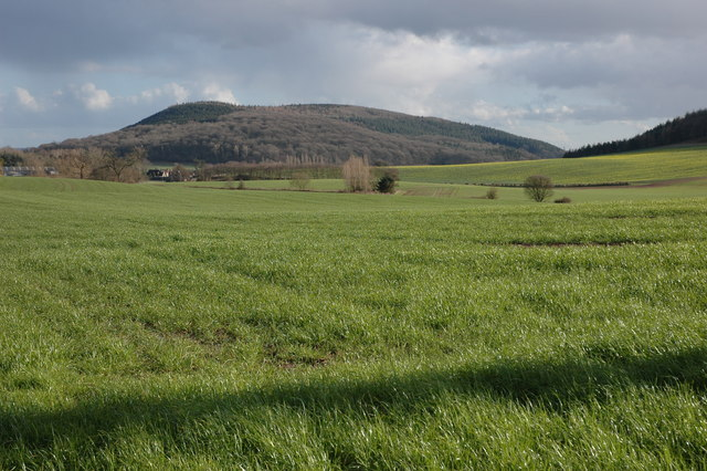 Credenhill viewed from Wormsley